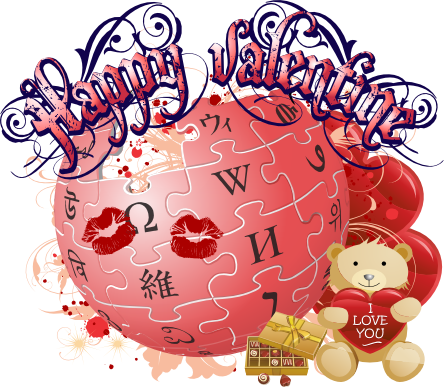 Wikipedia Valentine's Day